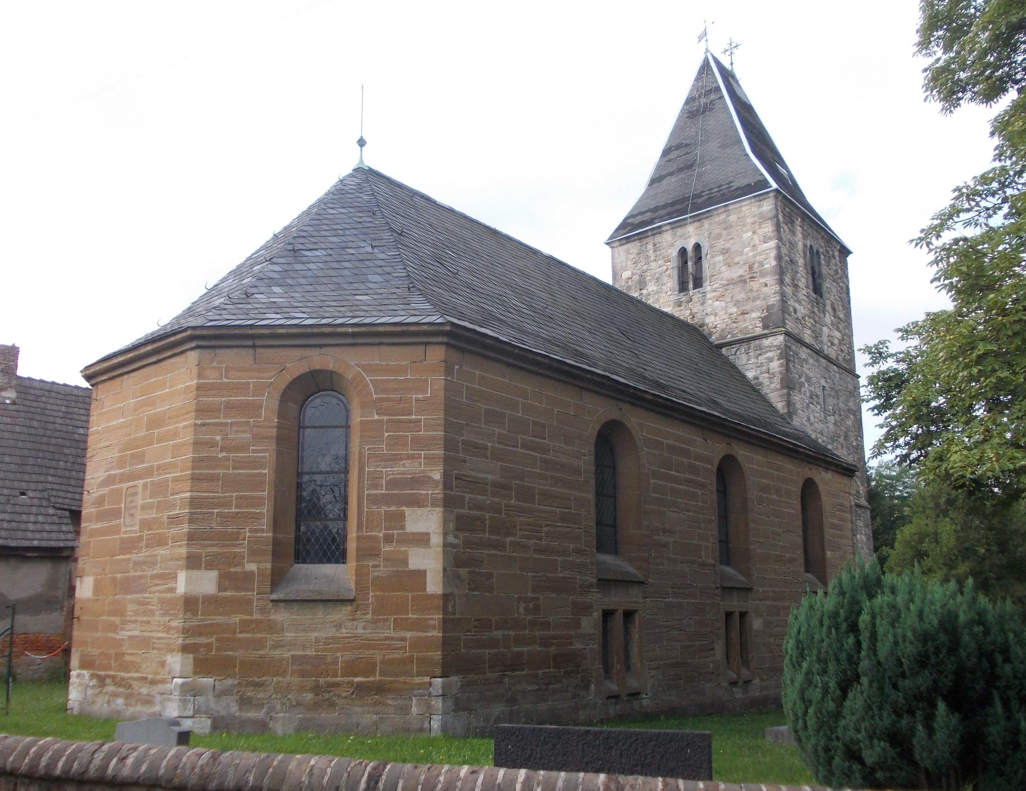 Göthewitz church (Lützen, district: Burgenlandkreis, Saxony-Anhalt)